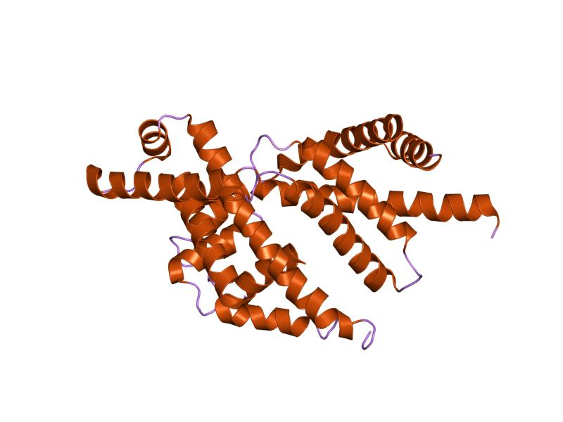 Cartoon representation of the molecular structure of protein registered with 1sc5 code.